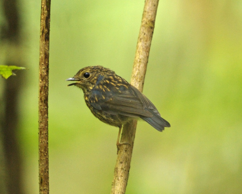 Snowy-browed Flycatcher Ficedula hyperythra - juvenile male Ficedula hyperythra vulcani Description in Robson: blackish fringes and warm buff streaks above, heavily marked blackish below. Male has slaty blue tail. 11th. August 2007 Location : Gunong Gede, Java, Indonesia Habitat: on